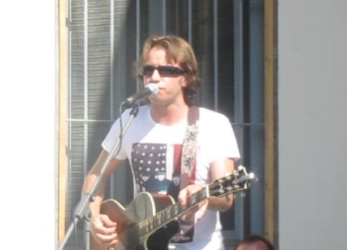 Riccardo Maffoni al Buscadero Day 2010, Pusiano, CO